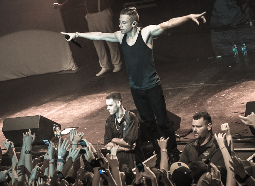 Macklemore performing in Toronto during The Heist Tour on 28 November, 2012.